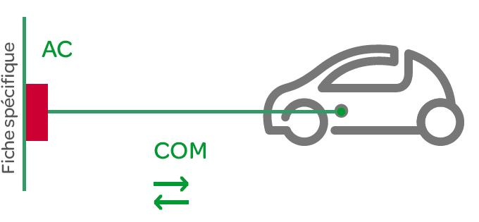 Mode 3 EV